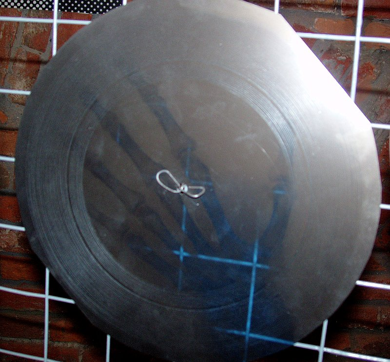 "Rock on bones" Gramophone record (USSR, 1950-s). Gallery "Vinzavod", Moscow